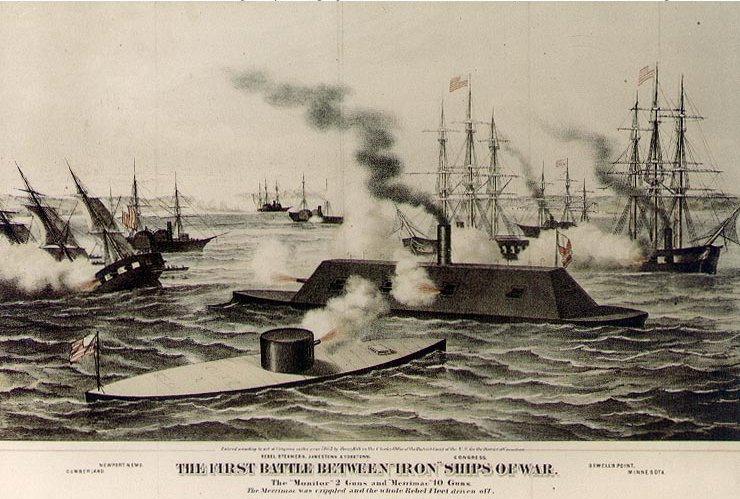 Lithograph first published by Henry Bill in 1862. This was found here, Ironclad naval battle.